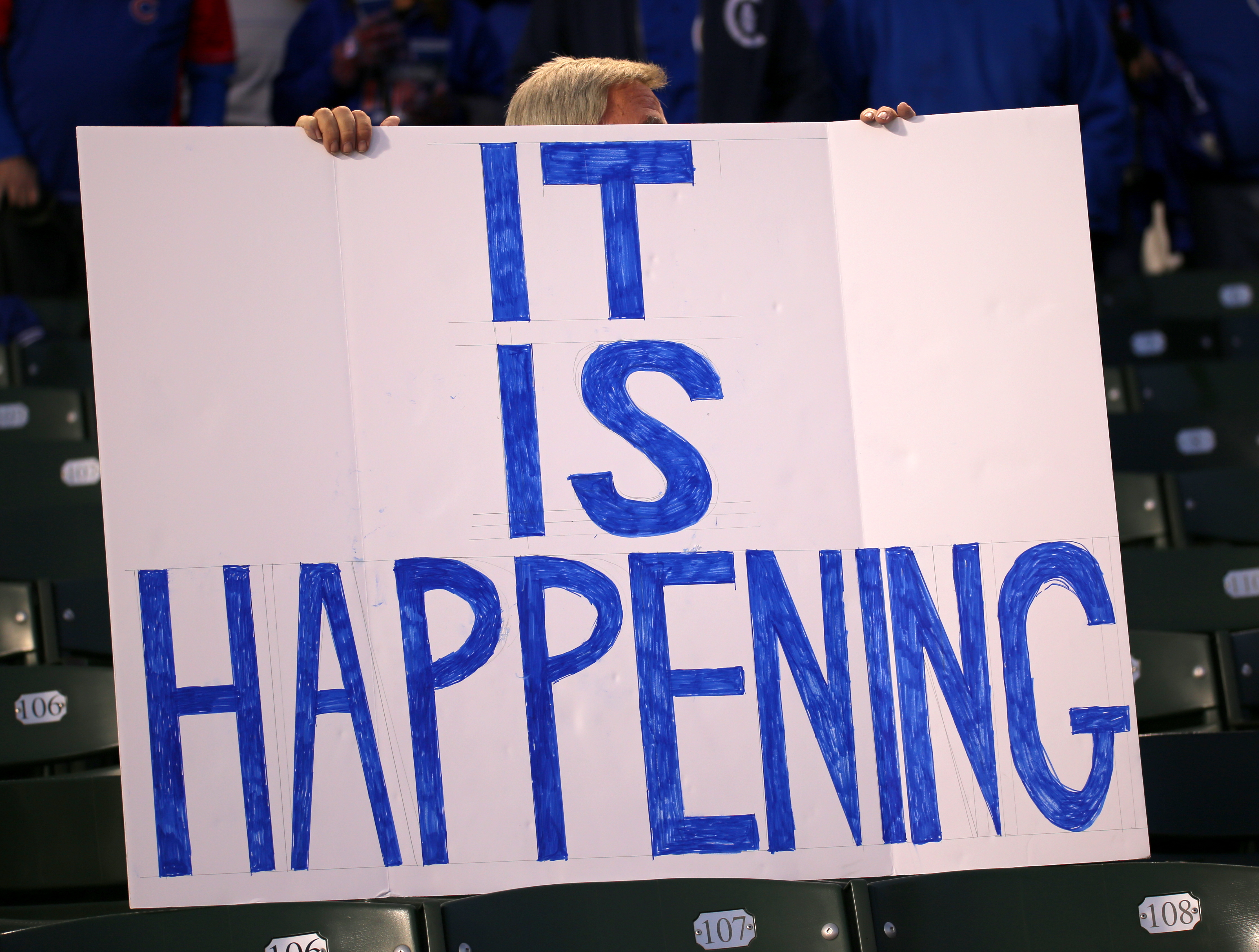 This Cubs fan is ready before NLCS Game 6.